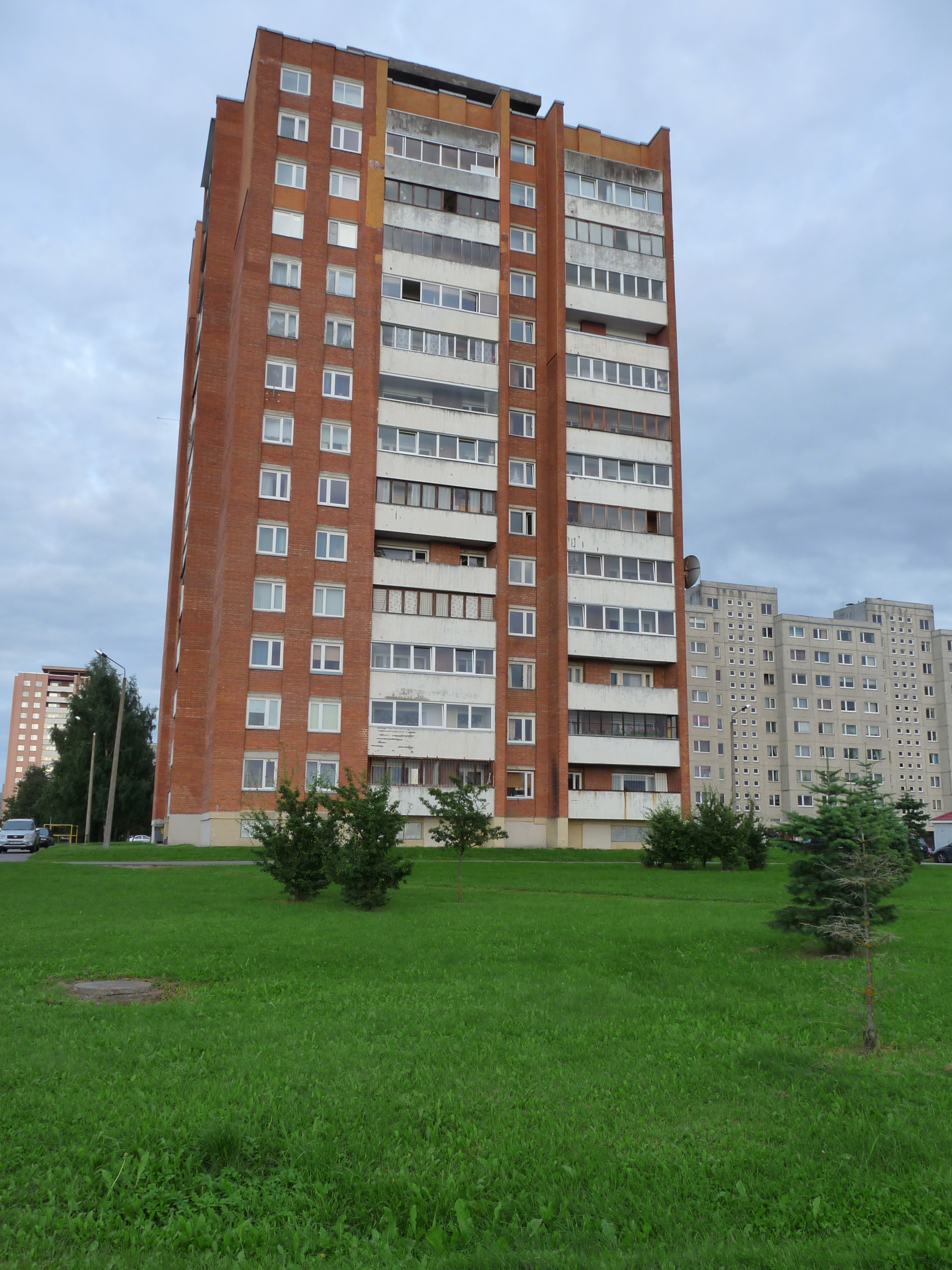 Buildings at Järveotsa street in Haabersti